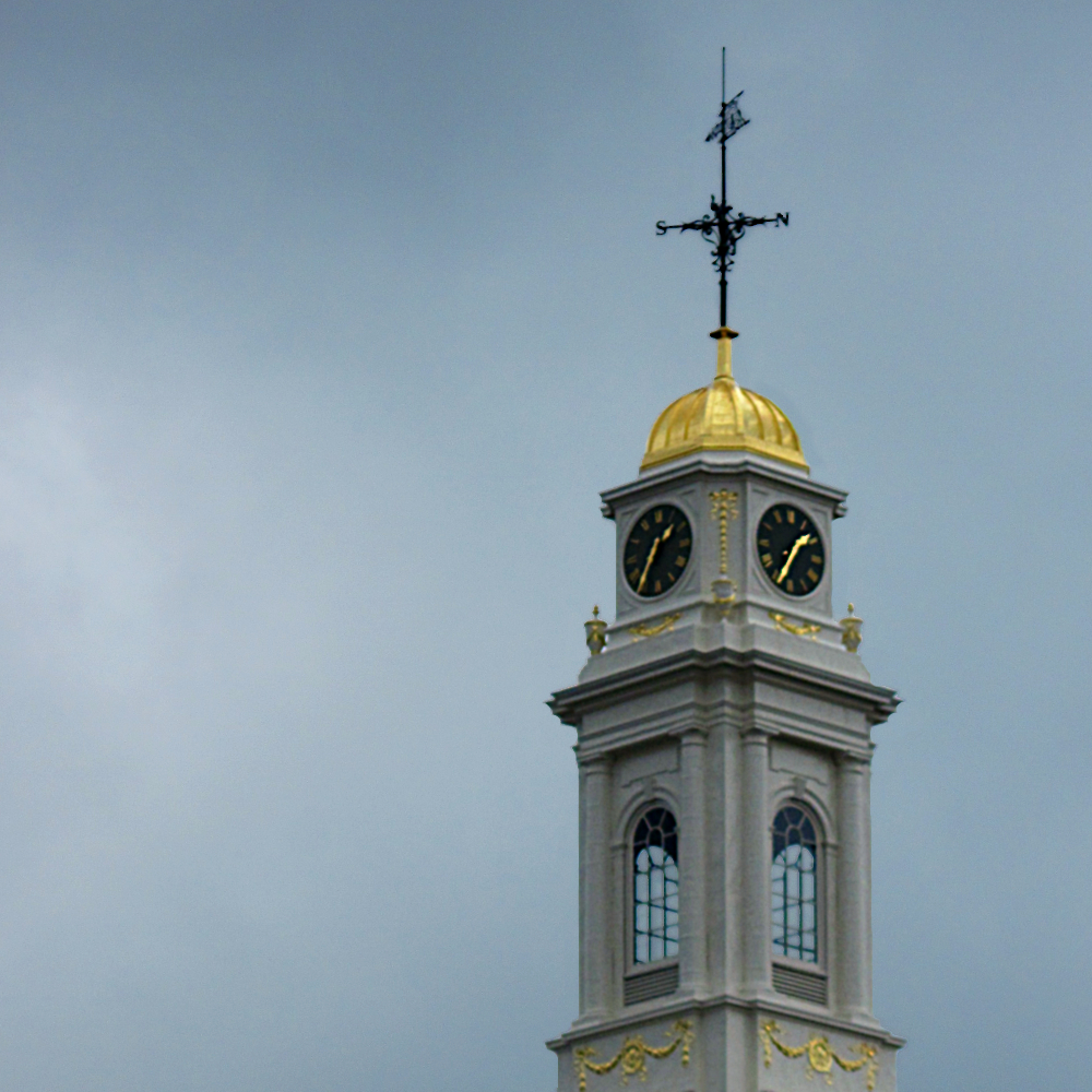 The cupola, clock tower and weathervane atop City Hall in Waterbury, Connecticut, as designed by architect Cass Gilbert.